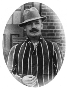 Alexander Findlater Todd (18 - 1915), England rugby union international, cricketer and soldier. Medium shot photo of Todd in sporting blazer.